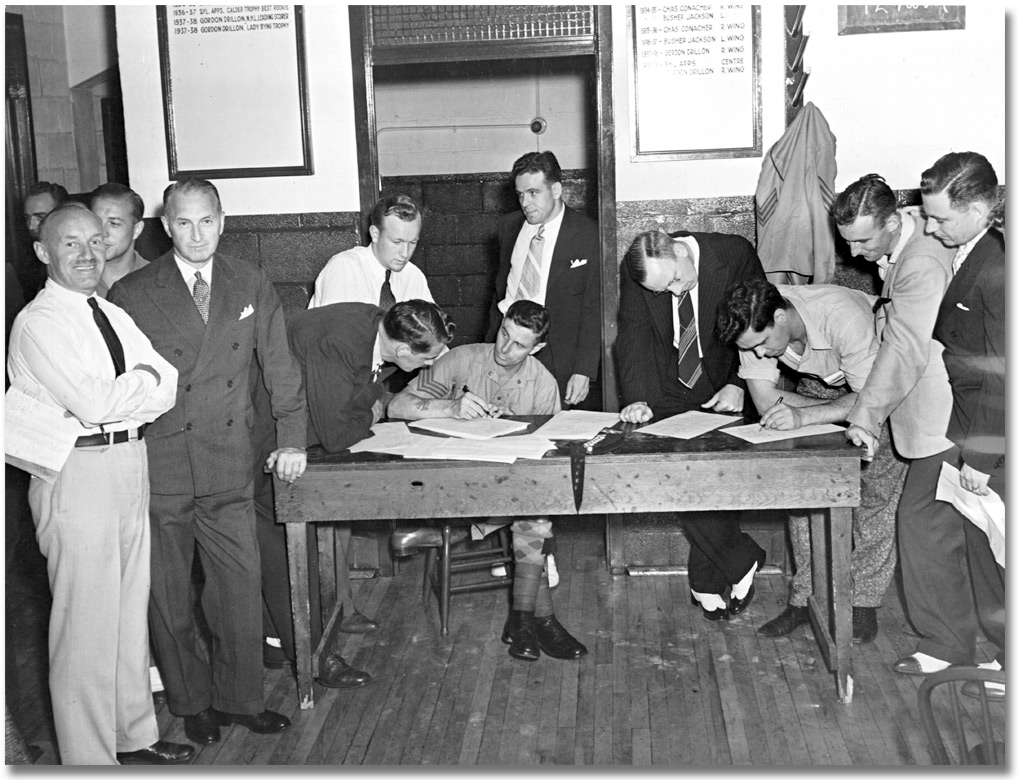 Conn Smythe and others enlisting for service at Maple Leaf Gardens, 1939 (Toronto, Canada)